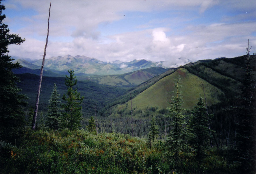 Looking down Dead Dog Creak towards the Tuchodi River, Northern Rocky Mountains Provincial Park, British Columbia, Canada.